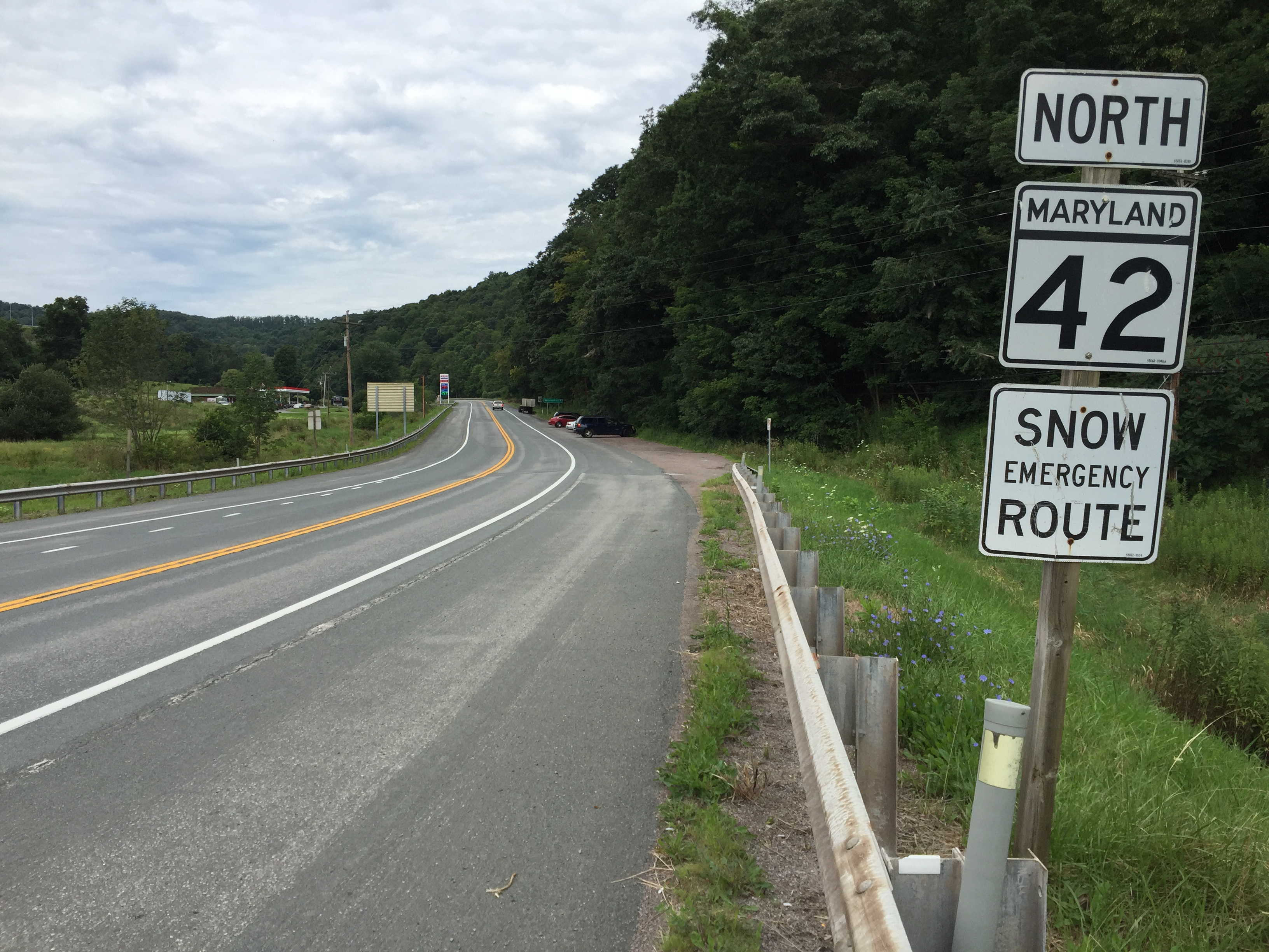 View north along Maryland State Route 42 (Friendsville Road) at Interstate 68 (National Freeway) just north of Friendsville in Garrett County, Maryland